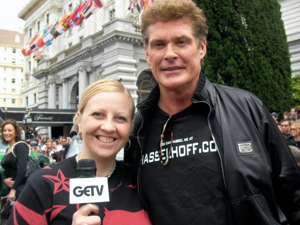 photo by ekai go join hoffspace and friend me LOL